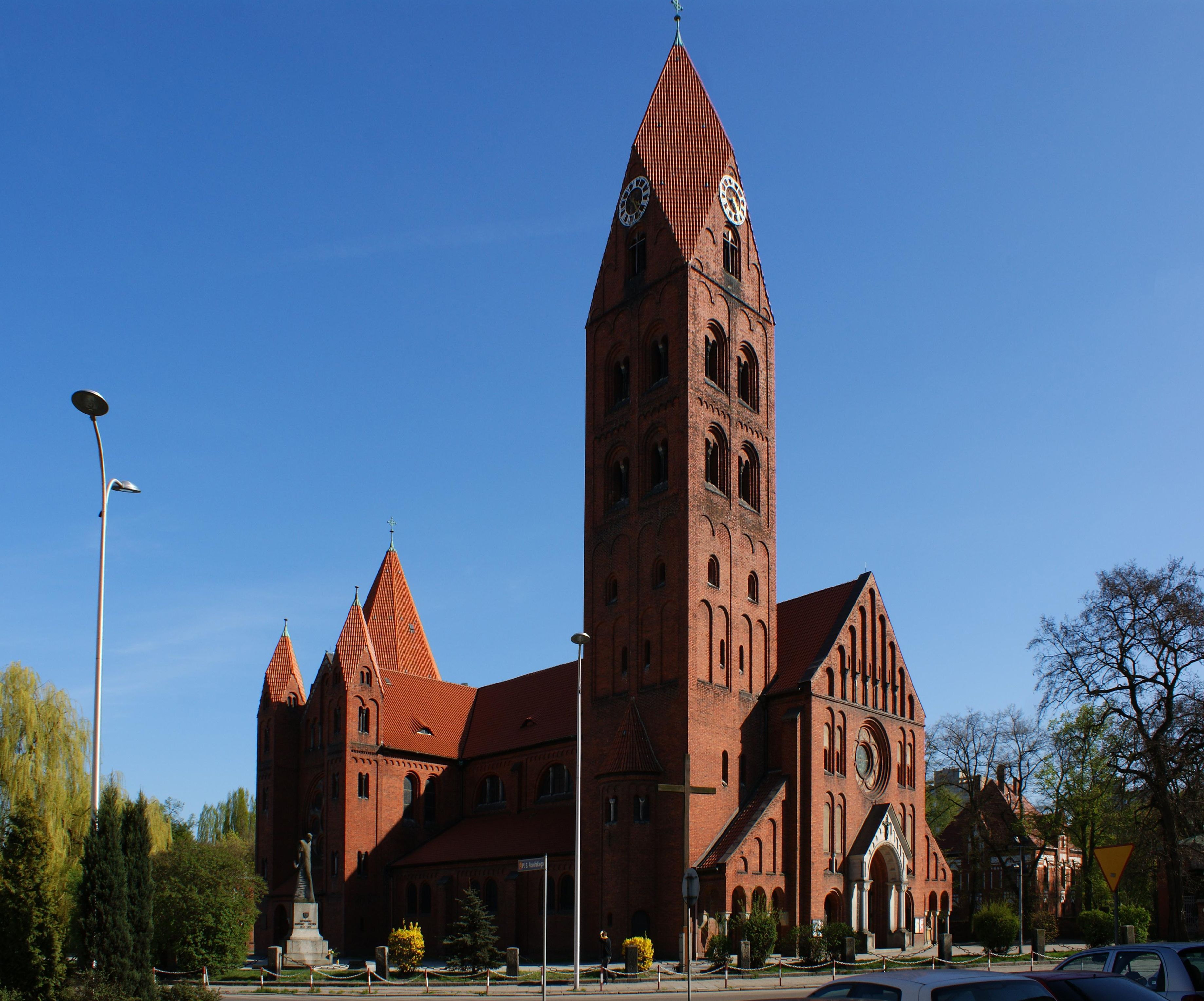 The Cathedral in Ostrow Wlkp.